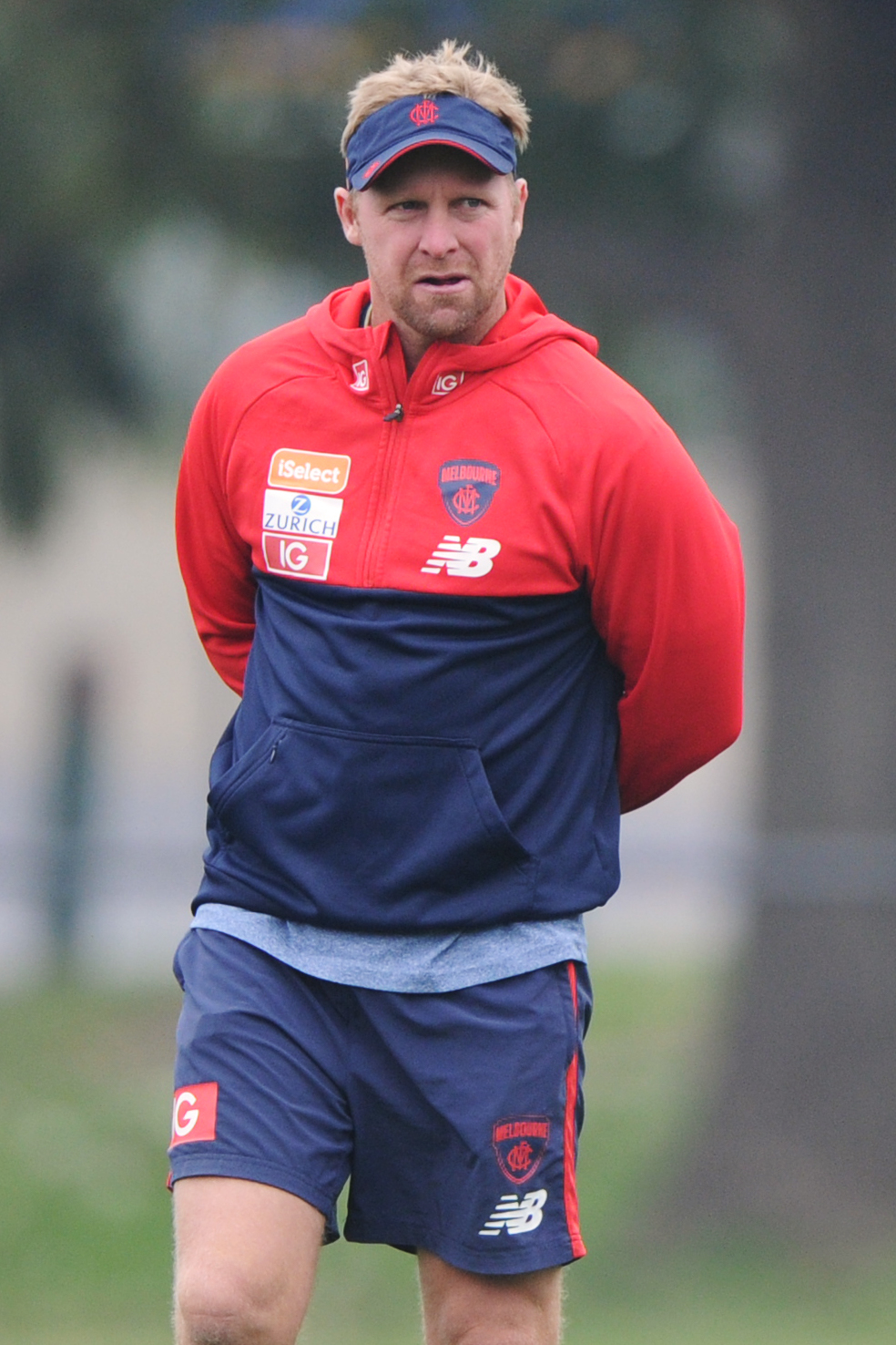 Justin Plapp during Melbourne training on 21 April 2018 at Gosch's Paddock in Melbourne, Victoria.